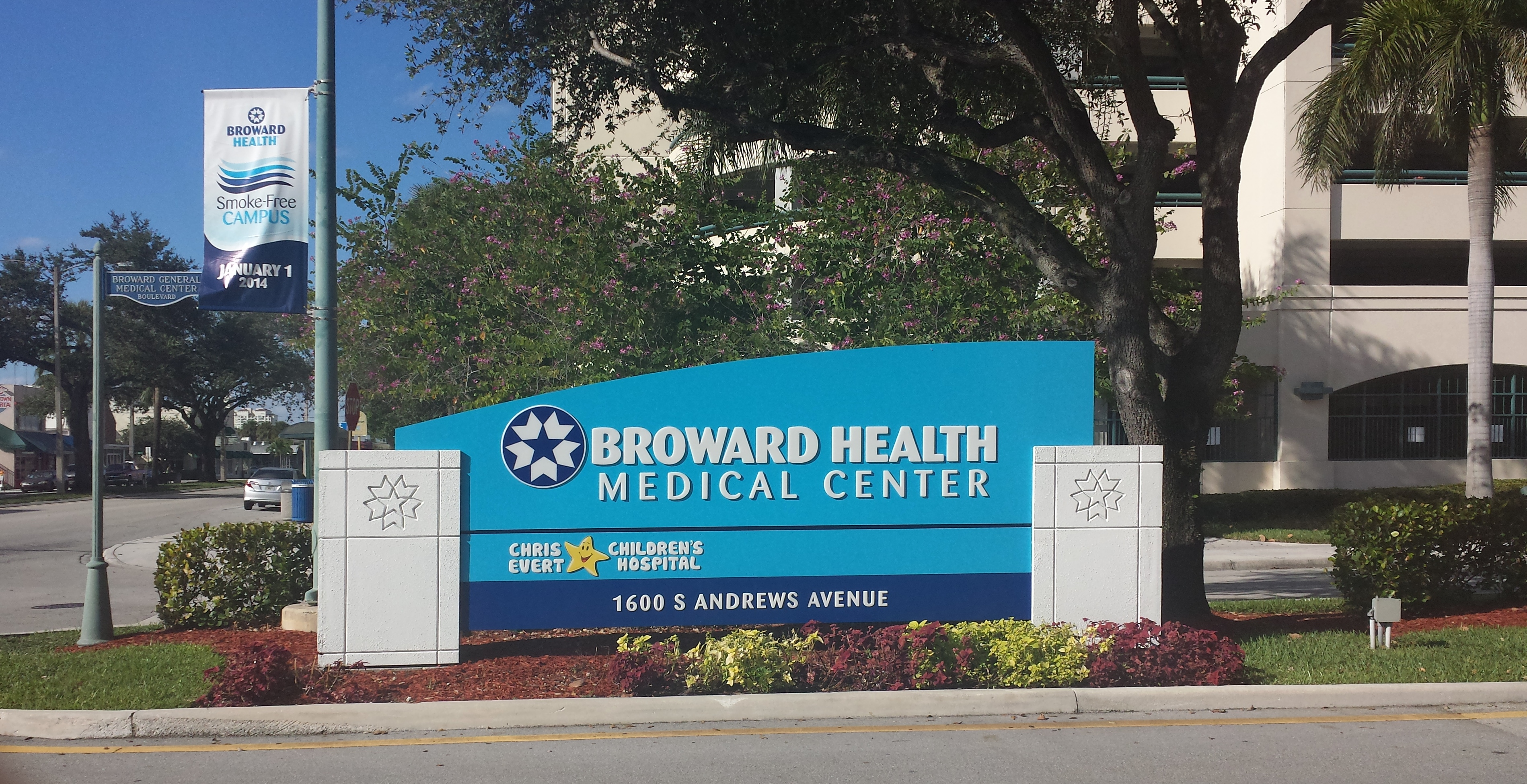 This is a photograph of the entrance of Broward Health Medical Center, a teaching hospital located in Fort Lauderdale, Florida.